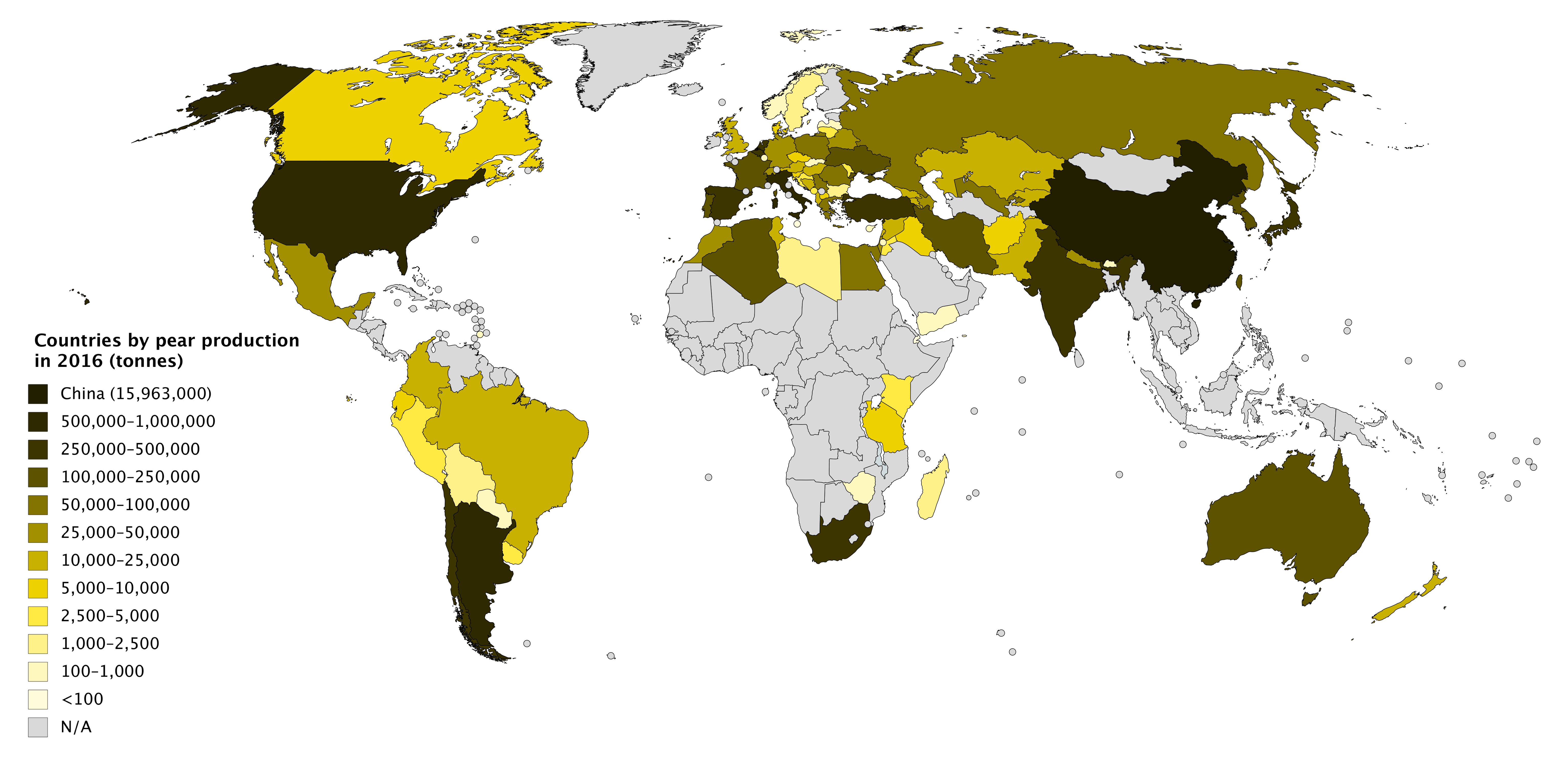 A choropleth map showing countries by pear production in tonnes, based on 2016 data from the Food and Agriculture Organization Corporate Statistical Database (FAOSTAT).